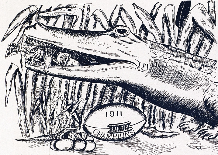 Cartoon depicting the Florida Gators eating all of their football opponents